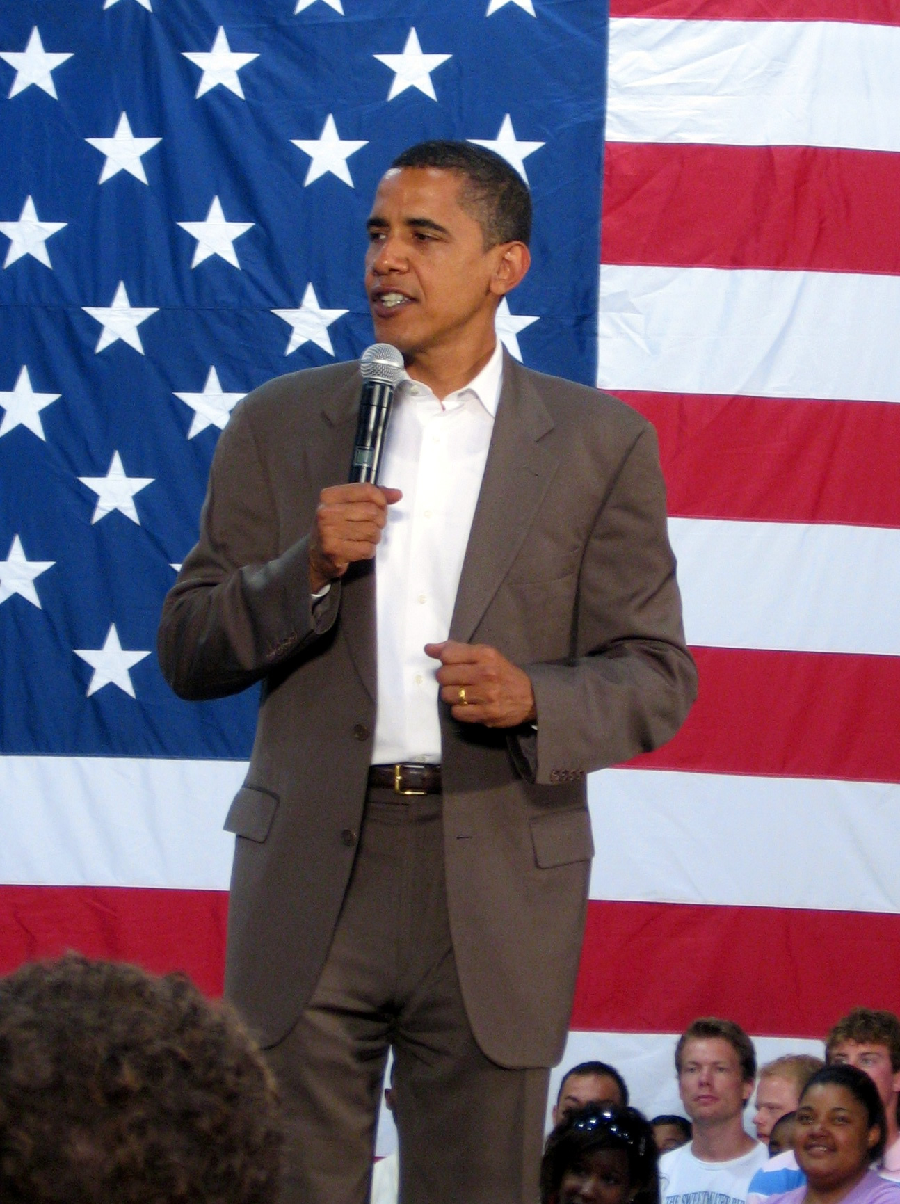 Barack Obama in South Carolina